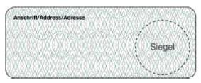 Sticker for change of address on a residence permit (electronic version) in Germany